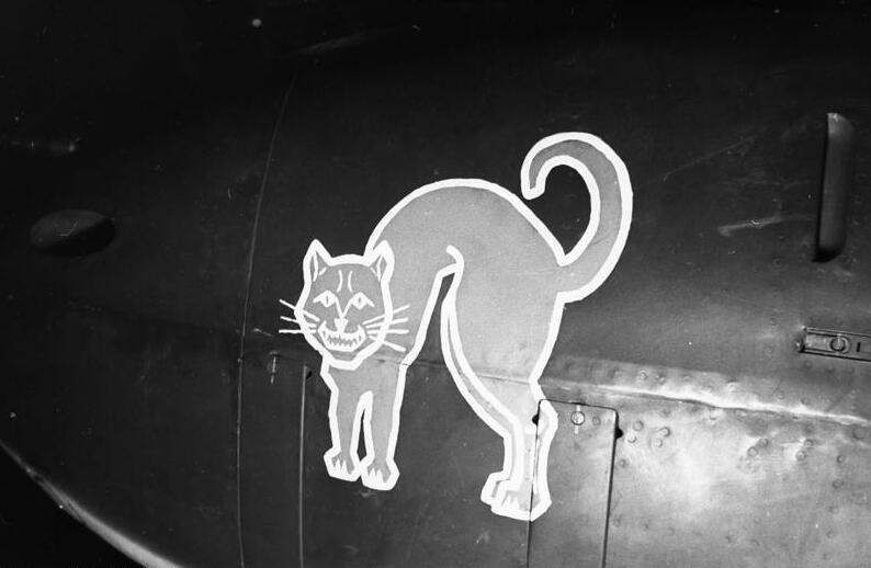 Unit emblem of 2./JG 20 of Jagdgeschwader 20